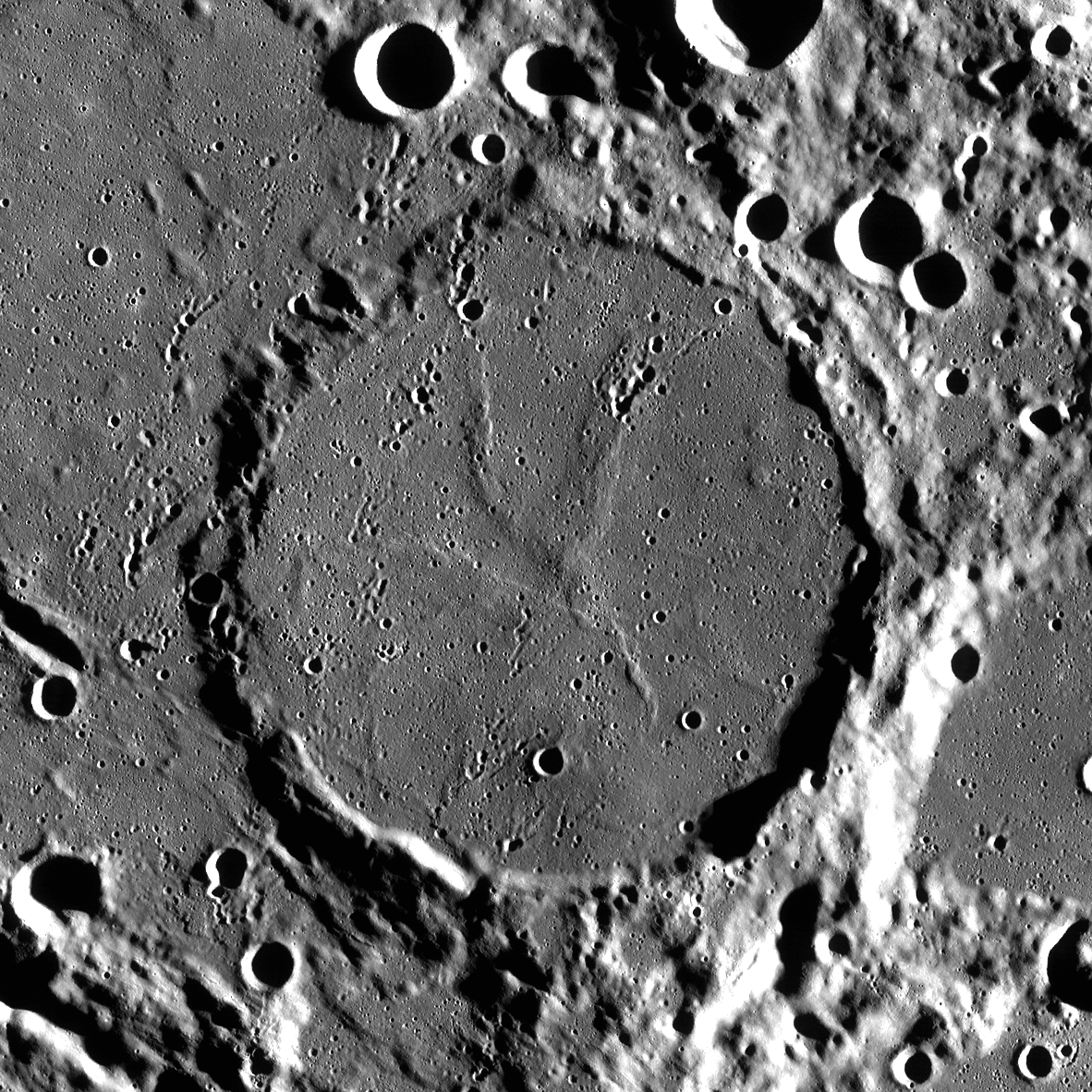 Crater Wargentin on the Moon, near southwestern edge of the nearside. Mosaic of photos by Lunar Reconnaissance Orbiter, made with Wide Angle Camera. Size of the image is 140×140 km, north is approximately up.